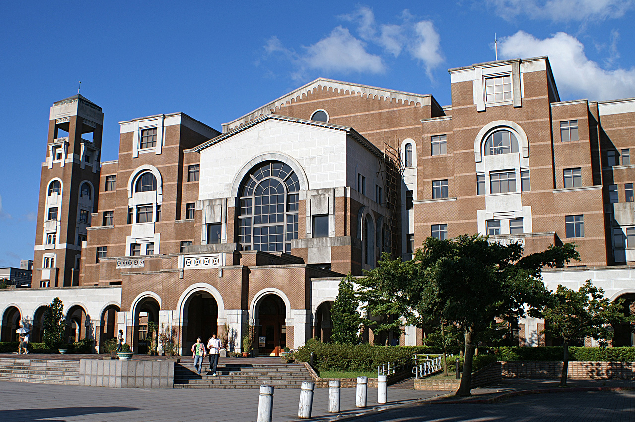 National Taiwan University Library中文（台灣）: 國立台灣大學總圖書館。Bân-lâm-gú: Tâi-uân Tāi-ha̍k ê Tsóng-tôo-su-kuán.